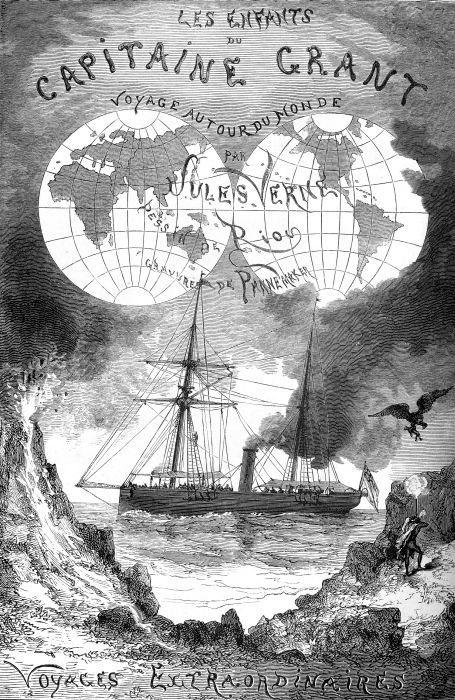 An ilustration from the novel "In Search of the Castaways; or Captain Grant's Children" by Jules Verne drawn by Édouard Riou.